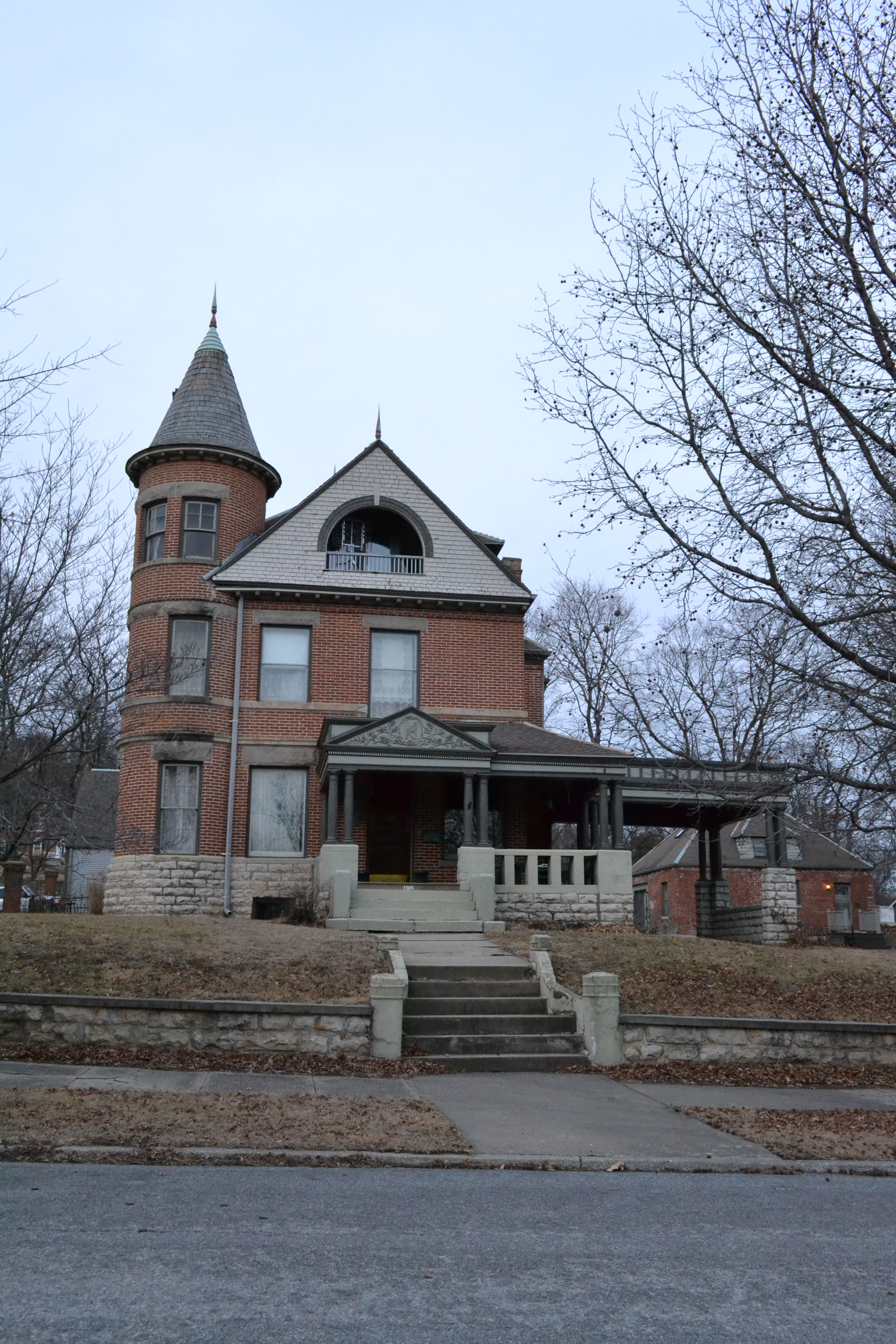 The Krug House in St. Joseph, Missouri. Part of the Krug Park Place Historic District.